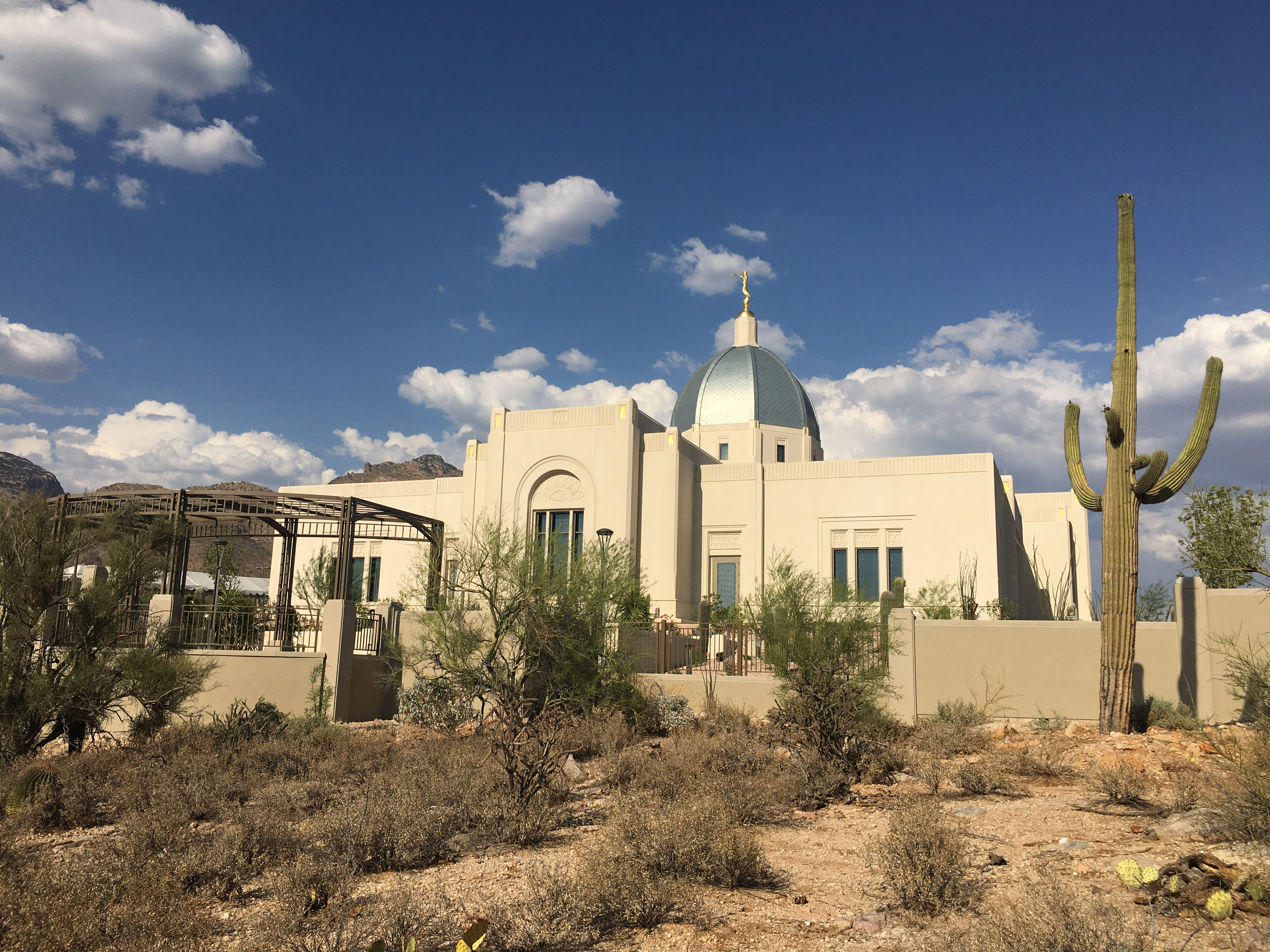 Western facade of the Tucson Arizona Temple of The Church of Jesus Christ of Latter-day Saints, located just north of Tucson, Arizona in the Catalina Foothills area. This photo was taken the day after the public open house ended just prior to the temple's August 2017 dedication.